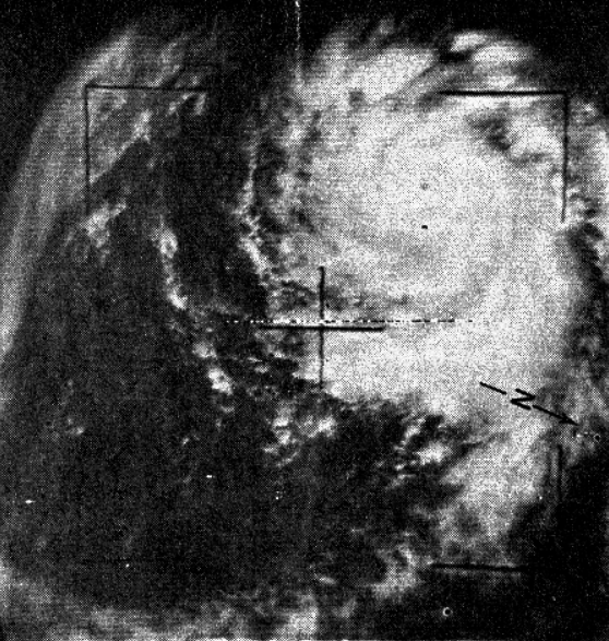 Hurricane Cleo strengthening as it moved into the Caribbean Sea on August 23, 1964.